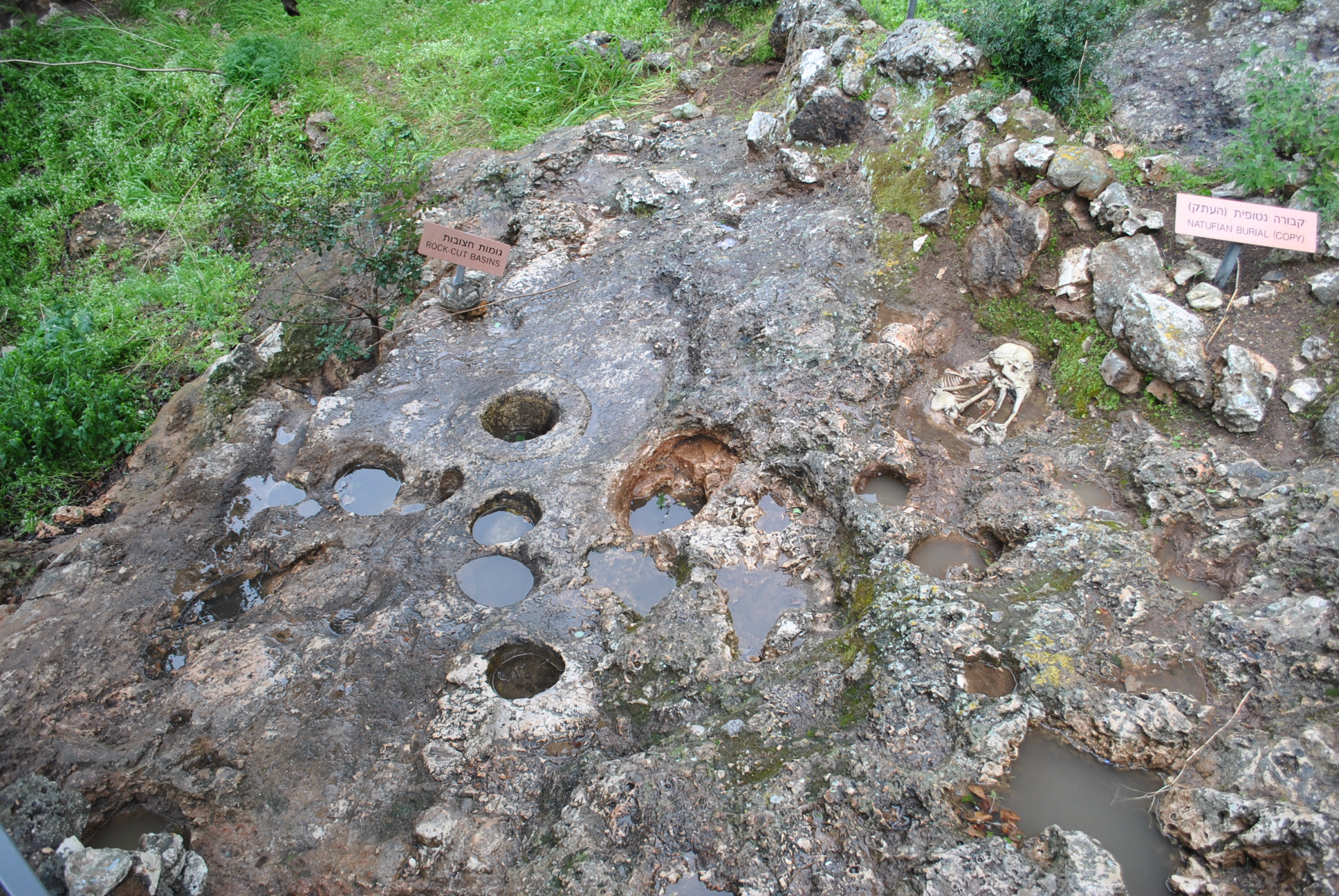 Early Natufian remains at el-Wad, Mount Carmel, Israel: bedrock mortars, a terrace wall and a copy of a burial